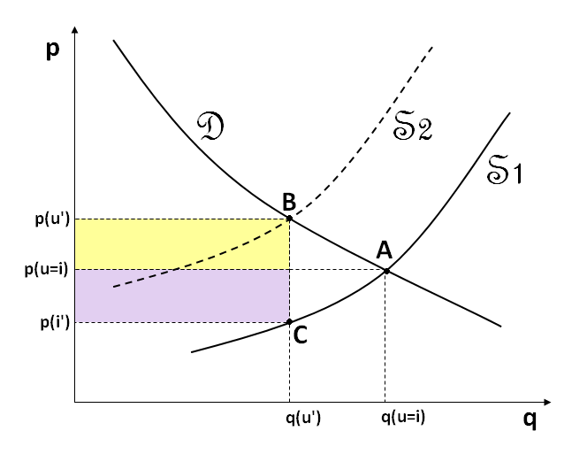 Graph Showing Influence of Import Duties; Based on File:Tax incidence (mixed).svg and compared with Žibert Franc (1993): Teorija javnih financ. Ljubljana, UL RS, pg. 197 for graph and pg. 96 for text. (Žibert's graph is not identical). Tariff Incidence on Importers Tariff Incidence on Exporters